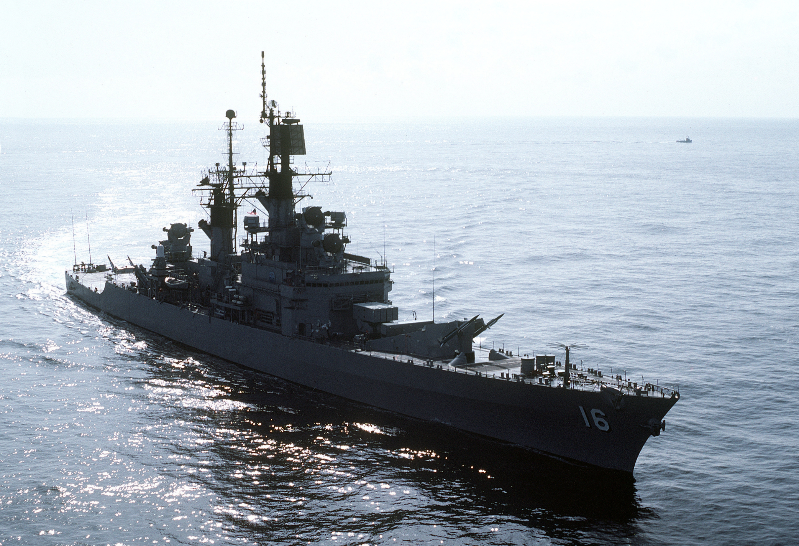 The U.S. Navy guided missile cruiser USS Leahy (CG-16) underway in the Pacific Ocean on 17 January 1983.